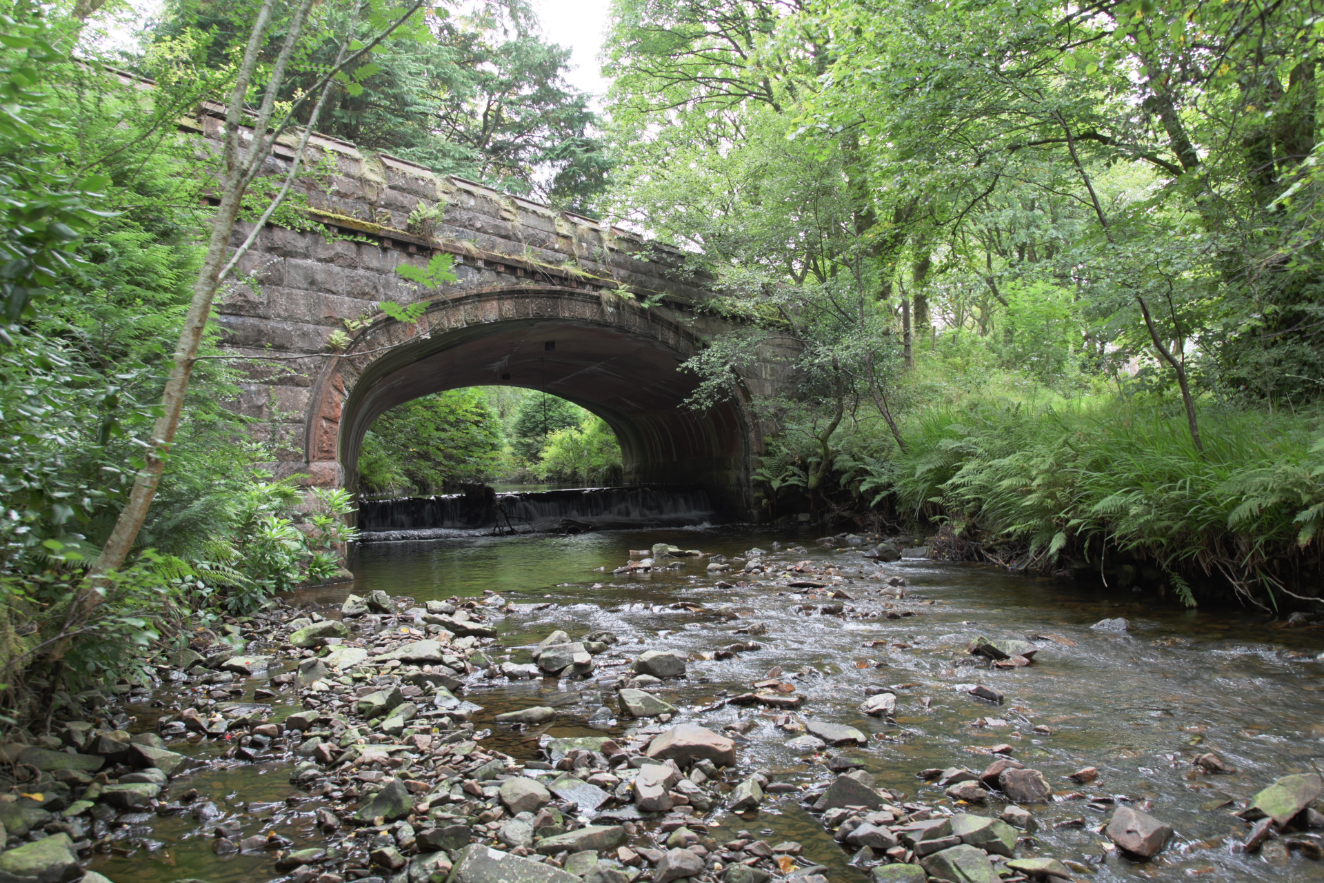 River and bridge at Kinloch Castle